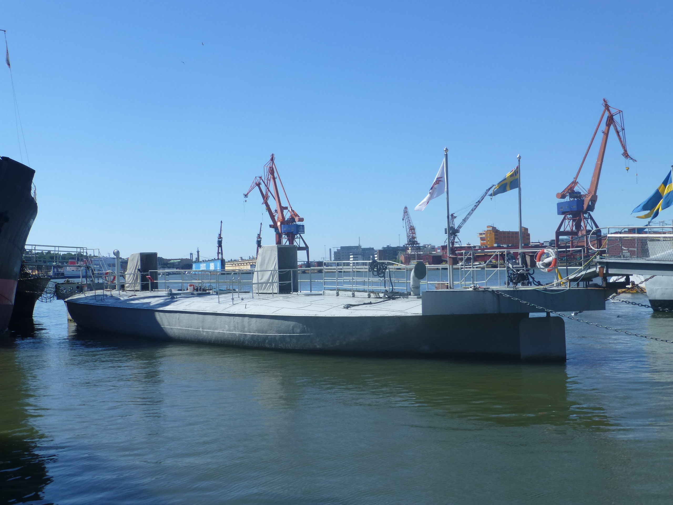 The monitor Sölve from 1875 at the naval museum Maritiman in Göteborg.